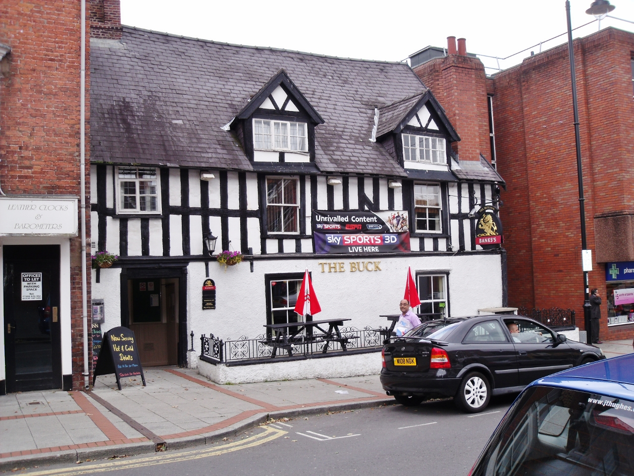 The Buck Inn was originally a timber-framed private house built in the 17th century with the upper storey projecting beyond the ground floor at the front of the building. It is likely that it would have once had a thatched roof . The inn, in Newtown's High Street, still survives today as one of the oldest buildings in the town